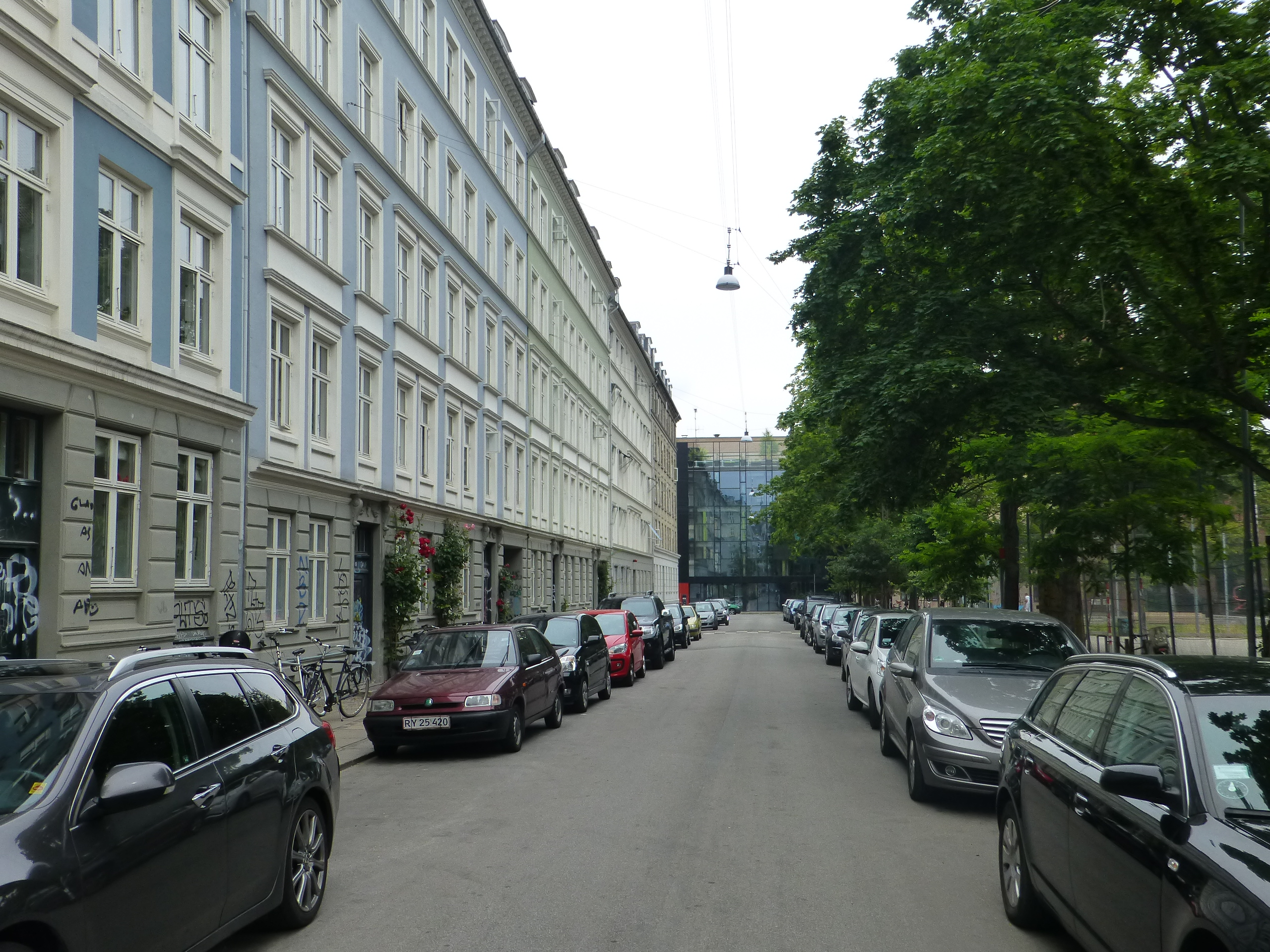 The street Estlandsgade in Vesterbro in Copenhagen.